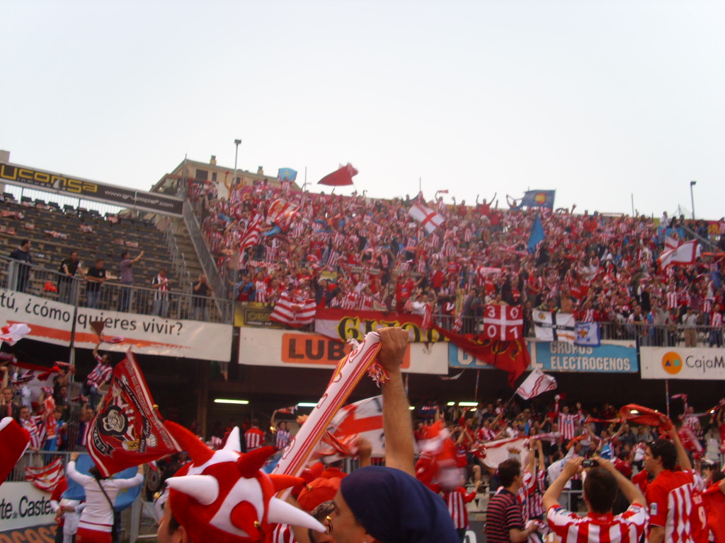 Sporting Gijón fans, at Castellón in May 2008.